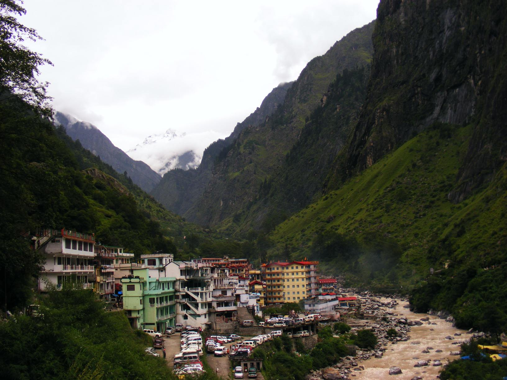 Govindghat village